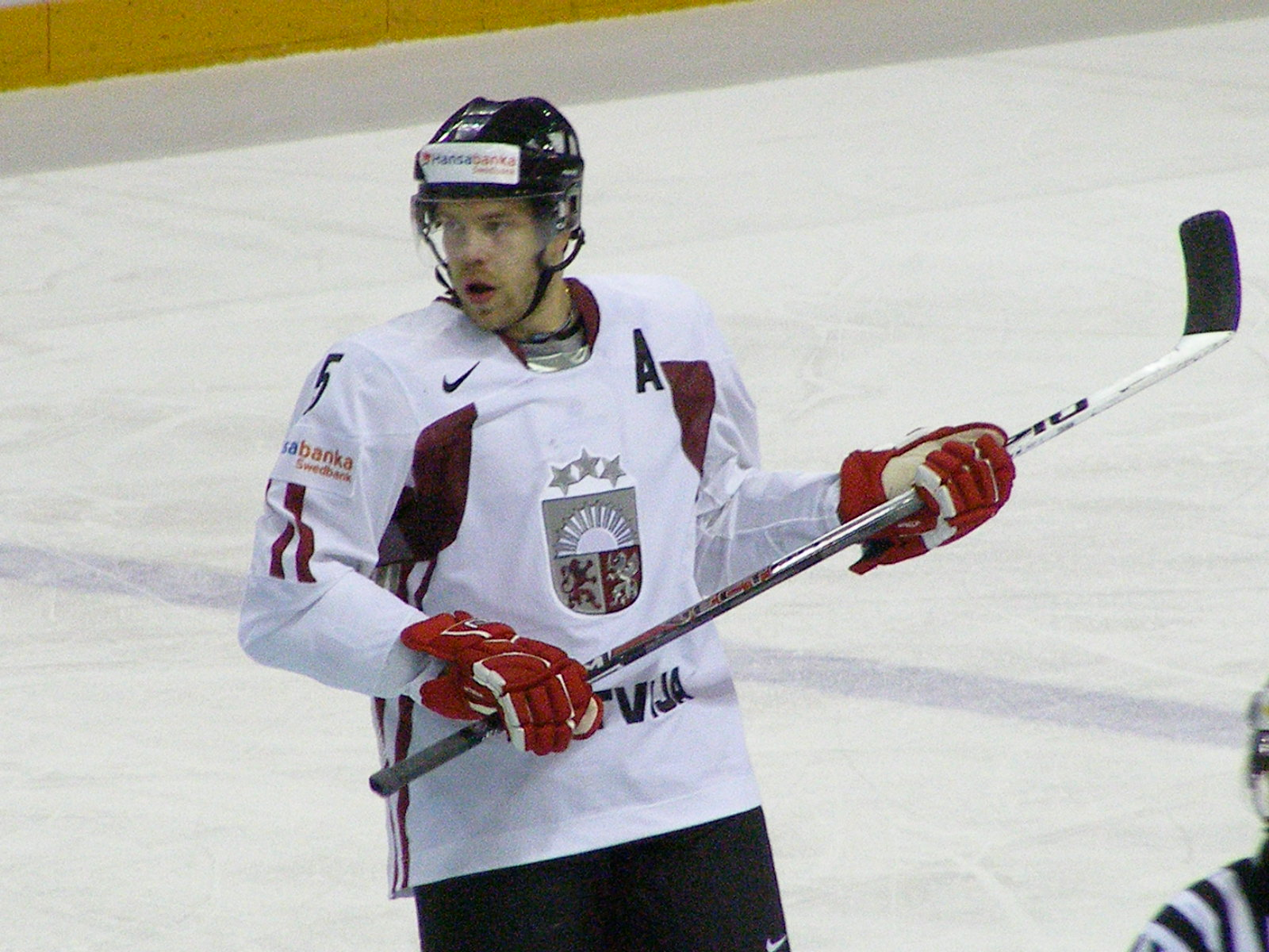 Jānis Sprukts - Latvia VS Norway (IIHF World Hockey Championship in Halifax NS, May 11 2008)